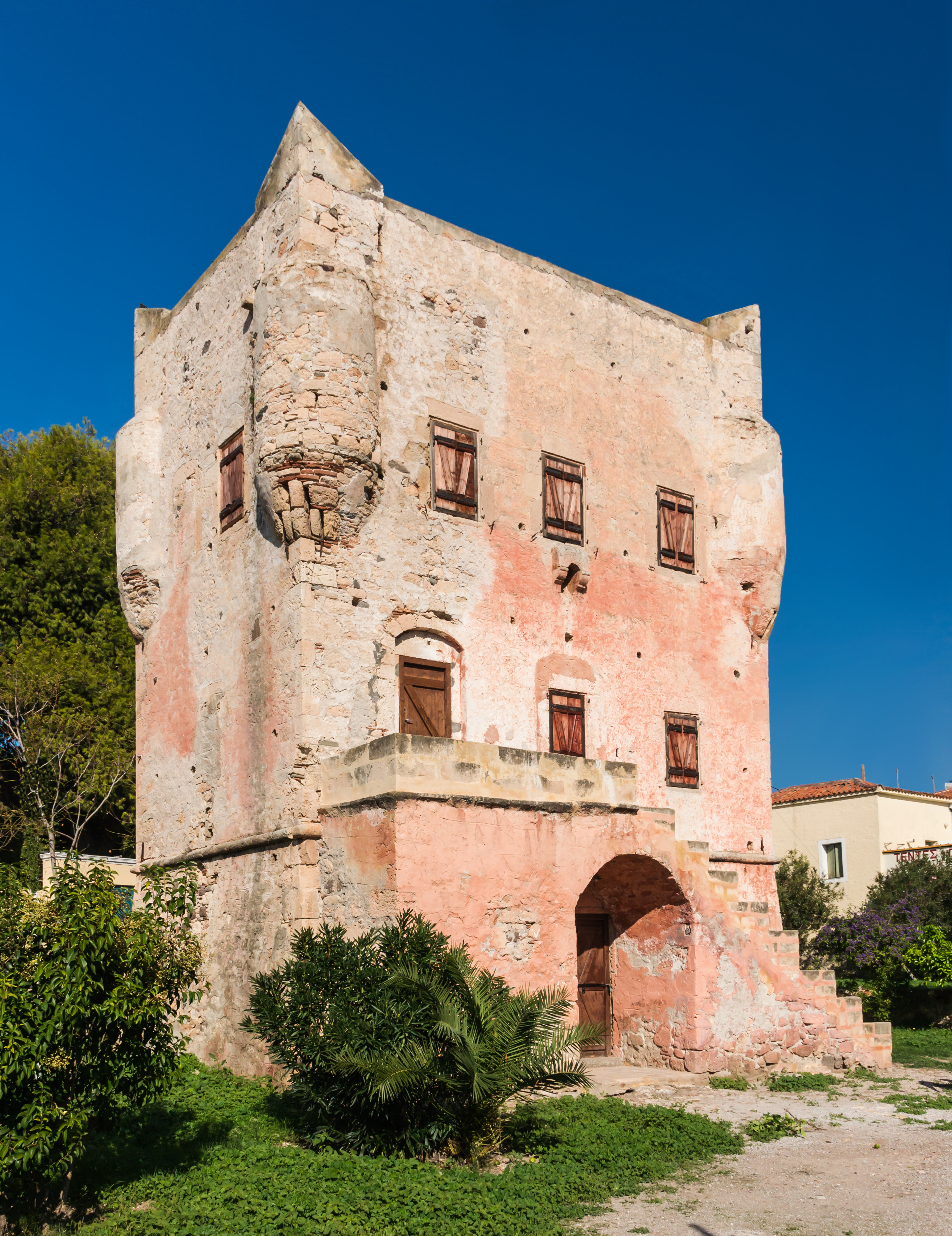 The Markelos Tower on the island of Aegina, Greece.